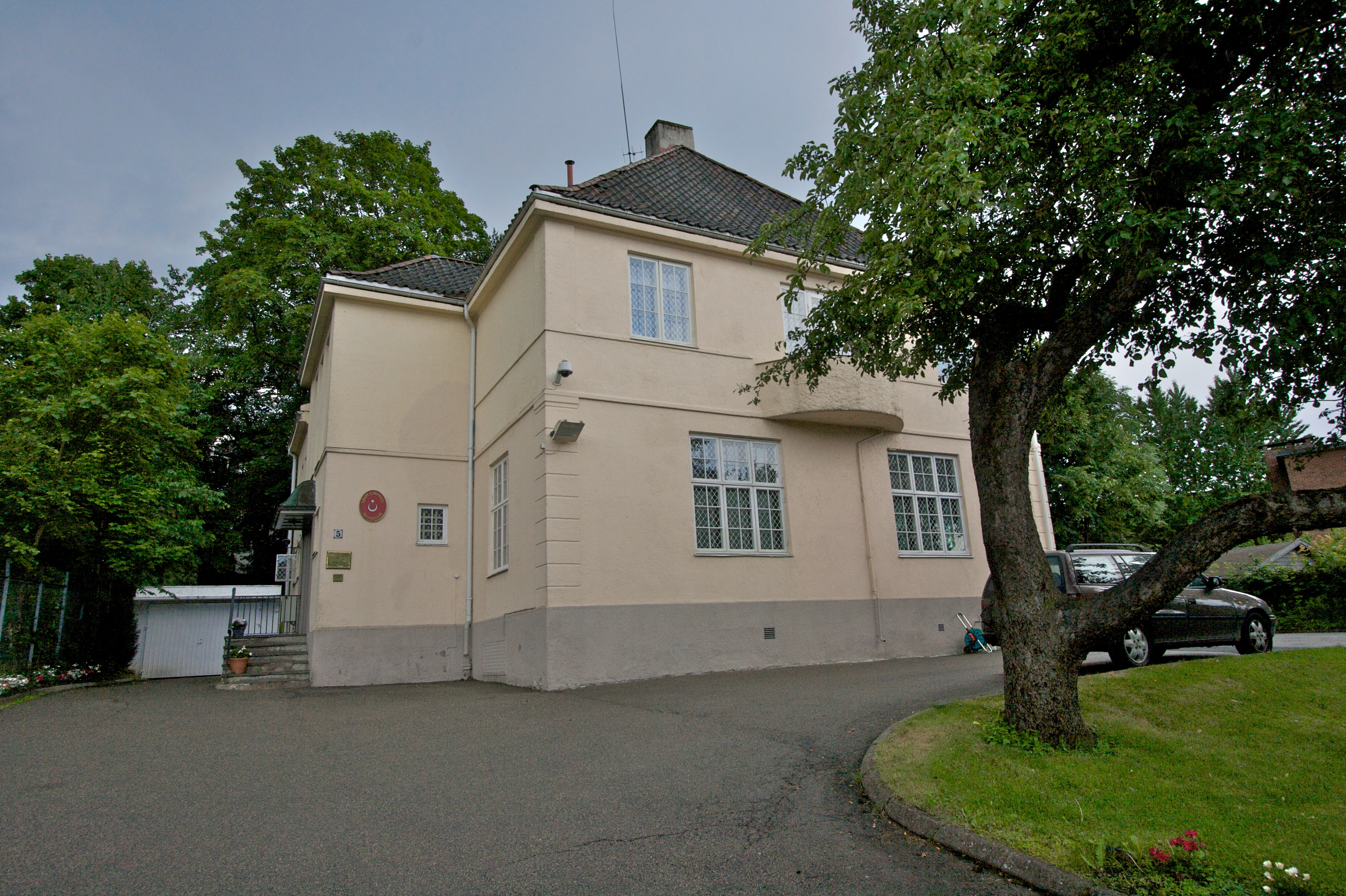 Embassy of Turkey, Oslo, Norway.